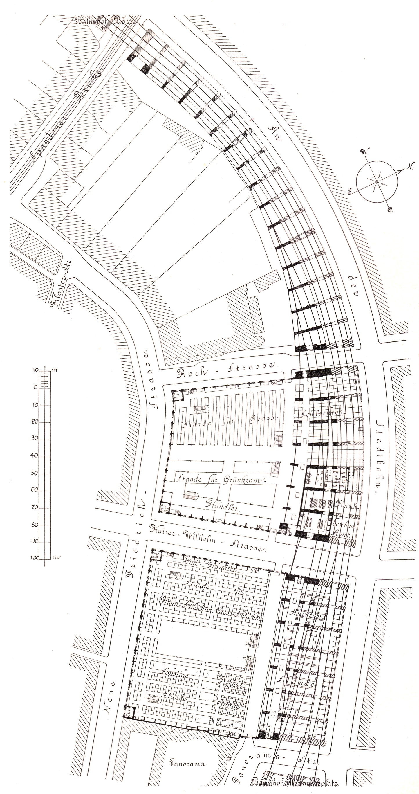 Berlin - central market hall, location plan